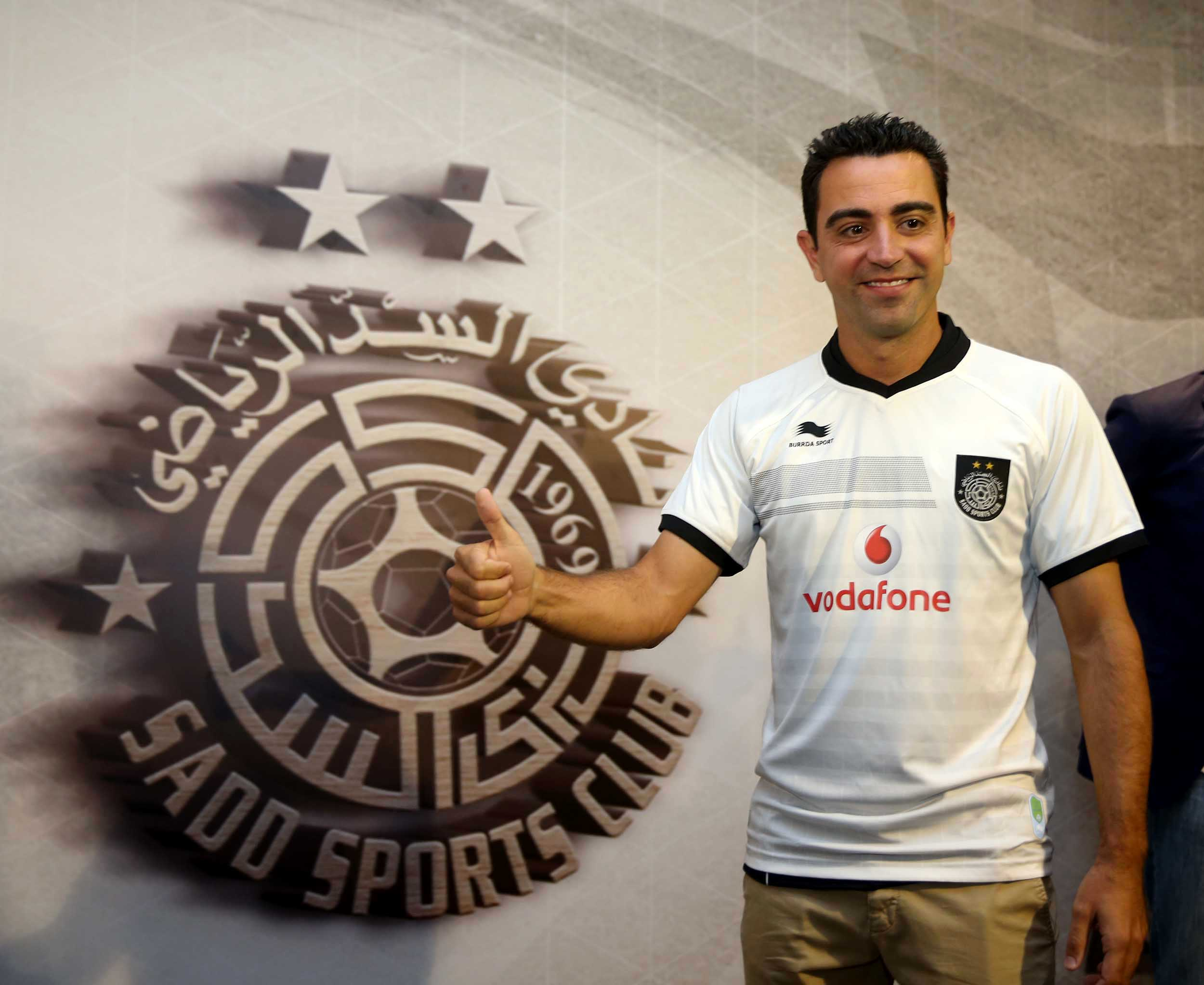 Spanish player Xavi Hernandez gives a thumbs up in front of the Al Sadd Club logo in Doha. Pic by Mohan